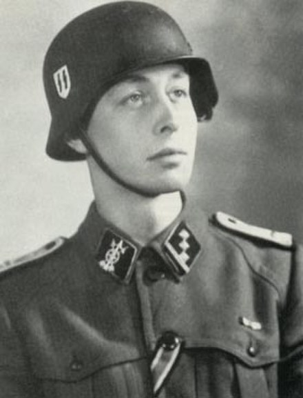 SS-Obersturmführer Pio Filippani Ronconi in the uniform of a foreign volunteer of the Waffen-SS. He is wearing the collar tabs of the 1st battalion of the 29th Waffen-Grenadierdivision of the SS (1st Italian).